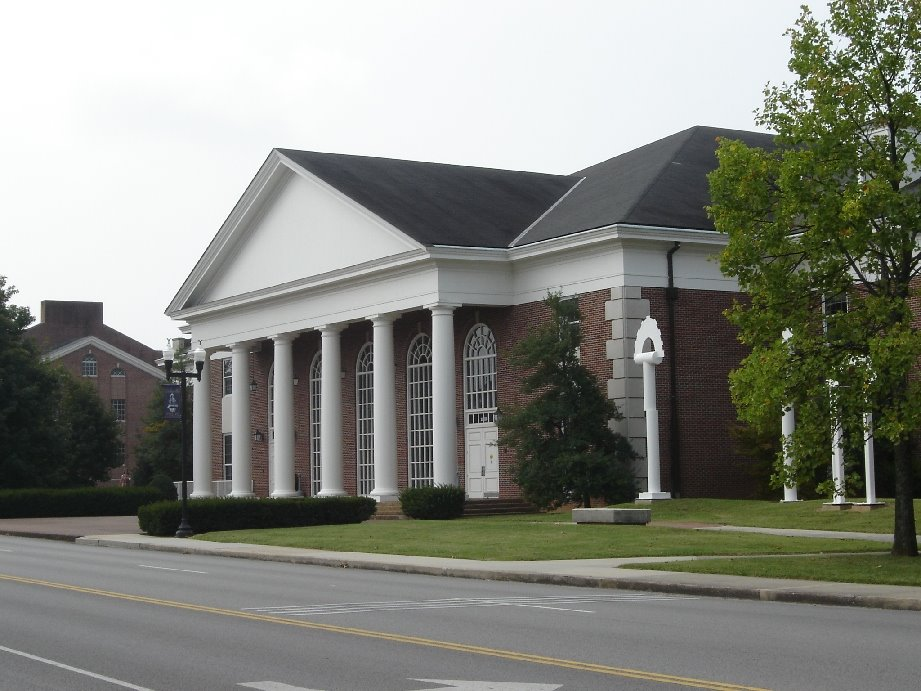 self-made file